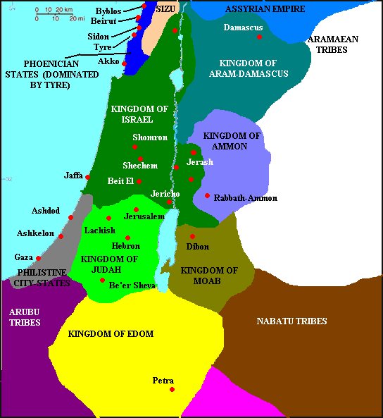 Map of the Levant, c. 830 BCE. Kingdom of Judah Kingdom of Israel Philistine city-states Phoenician states Kingdom of Ammon Kingdom of Edom Kingdom of Aram-Damascus Aramean tribes Arubu tribes Nabatu tribes Assyrian Empire Kingdom of Moab